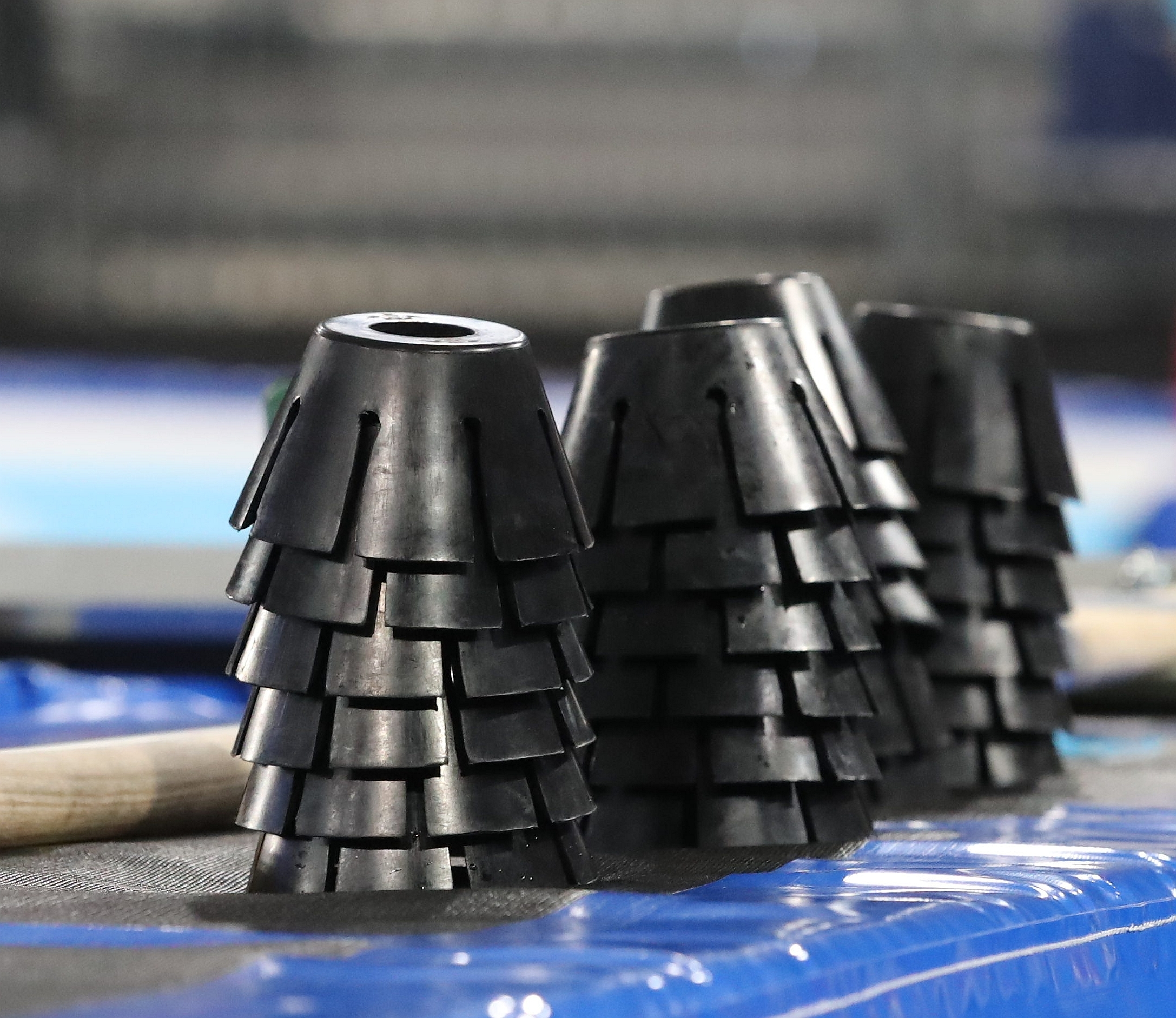 Impressions of the Short Track Speed Skating – Mixed NOC Team Relay at the 2020 Winter Youth Olympics in Lausanne on 22 January 2020.